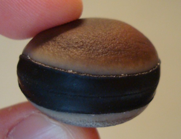 A hamburger seed of the Mucuna genus, found on the beaches of Belize.